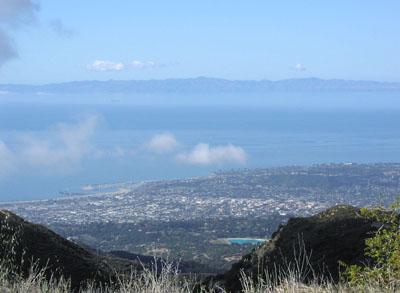 Santa Barbara Channel — from near the summit of Montecito Peak in the Santa Ynez Mountains, California. Looking across Santa Barbara Channel, with the city of Santa Barbara below in the foreground. In the distance is Santa Cruz Island, part of Channel Islands National Park. Taken by Antandrus, April 2002. — Freely given to public domain.